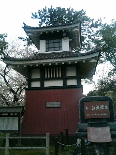 Photo taken by the uploader, Ian Ruxton alias Historian, in the Katsuyama park next to Kokura castle in Kitakyushu. This is an example of the old Japanese lighthouses used before Richard Henry Brunton modernised Japan's lighthouses along Scottish lines in the 1870s.